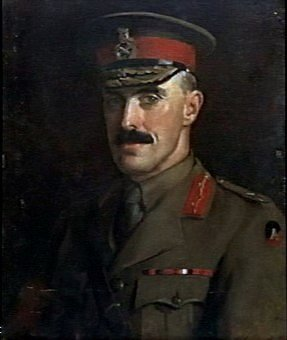 Portrait of Brigadier-General William Livingstone Hatchwell Burgess (1880-1964), CMG, DSO, Commanding 4th Division Artillery, AIF. Born in England, William Burgess emigrated to New Zealand in the 1890s and worked as acarpenter and engineer before joining the New Zealand Volunteer Force, serving with the Canterbury Mounted Rifles in Timaru. He transferred to the New Zealand Regiment of Field Artillery Volunteers in Auckland. In November 1913 he was seconded to the Australian Military Forces for 12 months duty as an exchange officer and he subsequently became Brigade major on the staff of the 6th Military District in Hobart, Tasmania. He was appointed to the AIF as Captain in August 1914 and commanded the 9th Field Artillery Battery. After training in Egypt, he went ashore at Anzac in May 1915 and was promoted to Lt. Colonel in March 1916, two weeks before embarking for France. In France his brigade participated in the advance to the Hindenburg Line and the fighting around Bulecourt. Burgess returned to New Zealand after the war and in 1921 became chief of staff at Army Headquarters. In 1924 he became Director of Military Intelligence and in 1931 was appointed General Officer Commanding the New Zealand Forces. This is one of the 12 portraits delivered by Bell to Australia House, June 1919. George Bell (1878-1966) studied at the National Gallery of Victoria School, Melbourne from 1896 until 1901 and during the First World War he worked at a boy's preparatory school and in munitions. In 1918 he was appointed official war artist attached to the 4th Division, AIF, working in France from October 1918 to April 1919 and returning there again in July 1919. His commission was terminated in December 1919 and he returned to Melbourne in 1920.